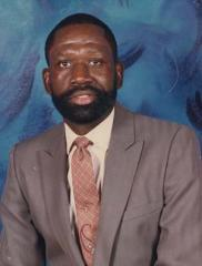 Photo of Rufus "Catfish" Mayfield